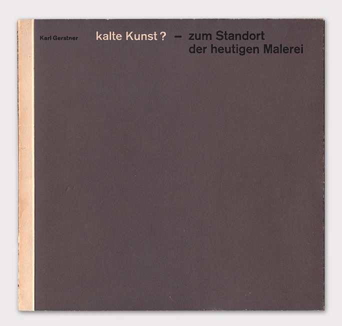 Cover of the book "kalte Kunst? zum Standort der heutigen Malerei", by Karl Gerstner, published 1957 by Niggli.